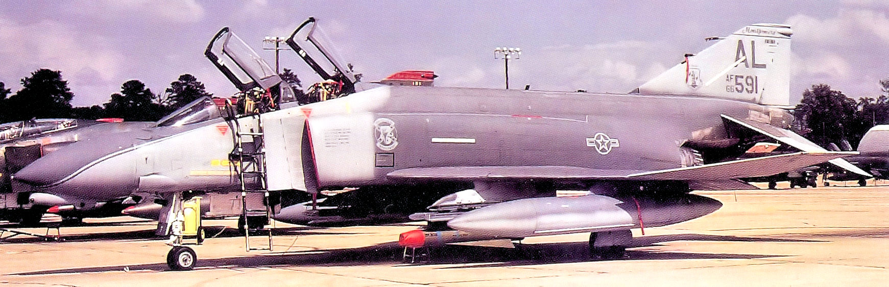 160th Tactical Fighter Squadron - McDonnell F-4D-30-MC Phantom 66-7591 (c/n 2146) to AMARC as FP0156 Oct 3, 1988. To Fritz Enterprises May 12, 1997